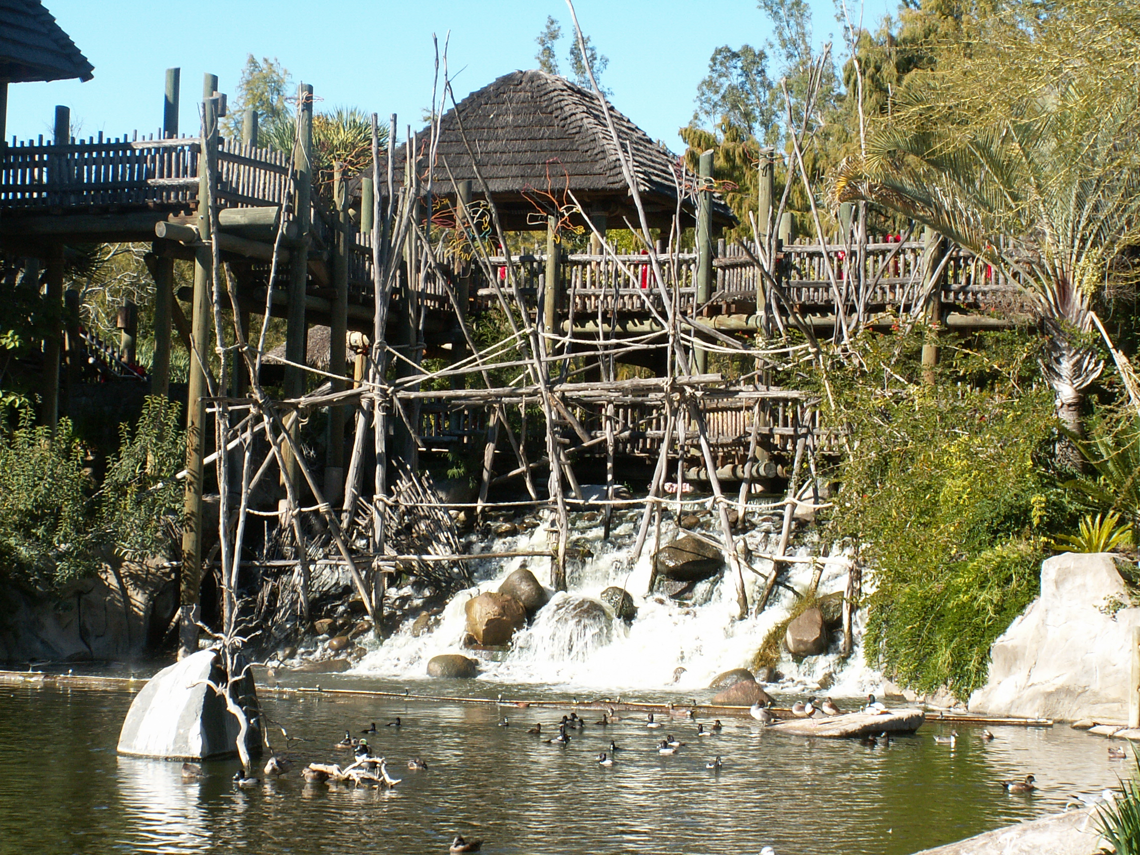 Nairobi village at San Diego Wild Animal Park